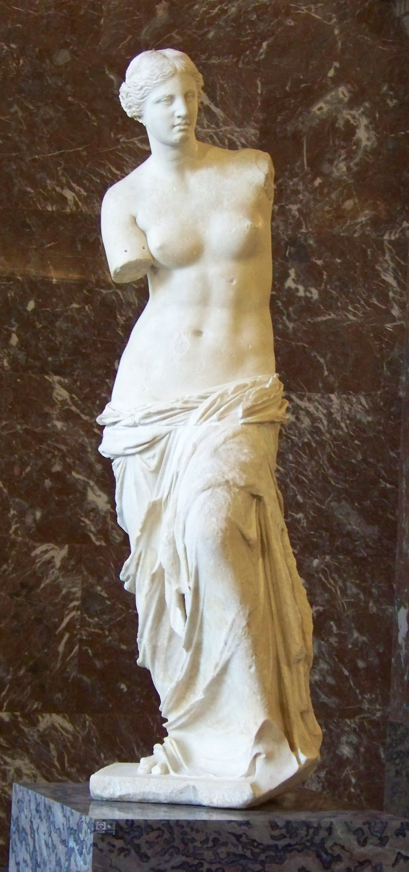 Venus de Milo (Aphrodite of Milos) c. 130-100 B. C. (Discovered in 1820 on. the Aegean Island of Milos) Paris, Louvre Musée du Louvre, Paris.